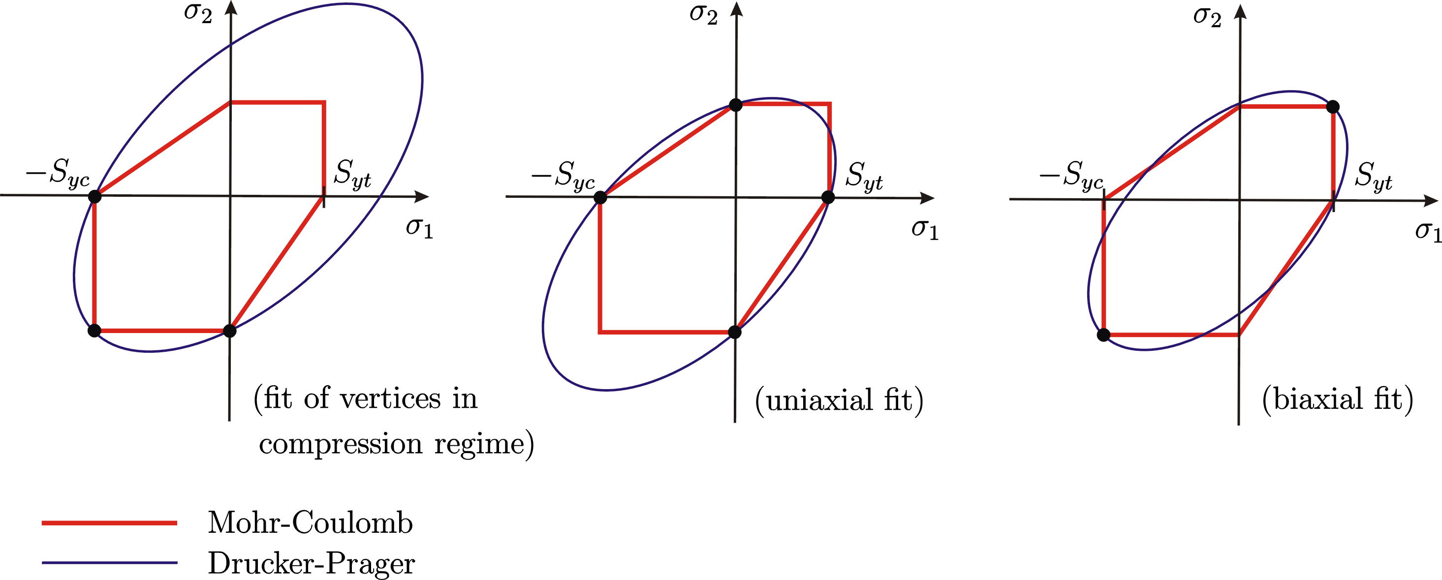 The figure shows two versions of the Drucker-Prager yield surfaces comparing to the Mohr-Coulomb yield surface (in 2D).